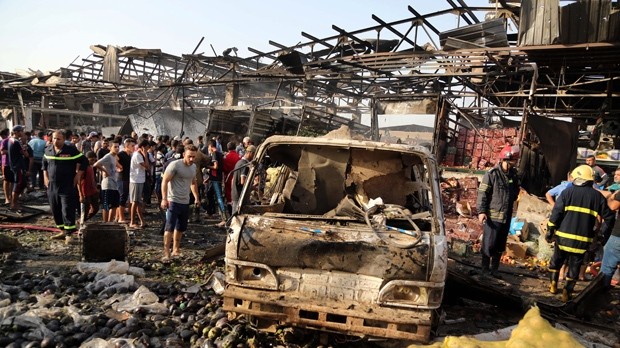 fsav